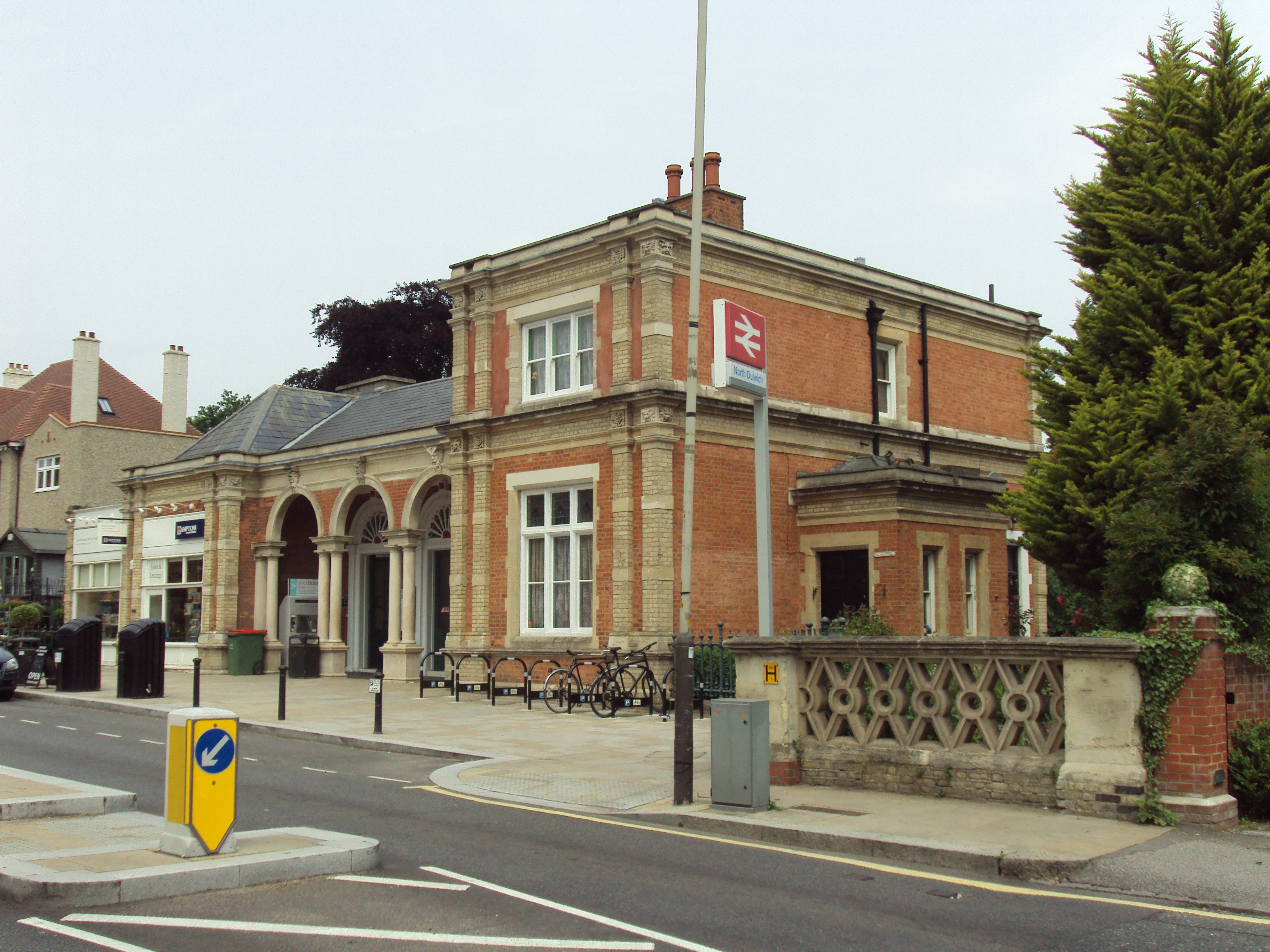 North Dulwich railway station building, South London.